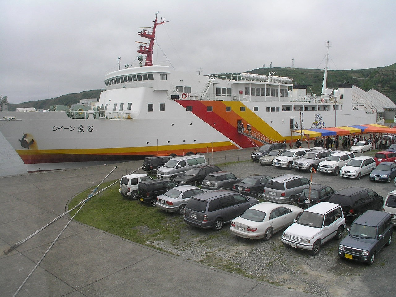 The Queen Soya, in the harbor of Wakkanai, Hokkaidō